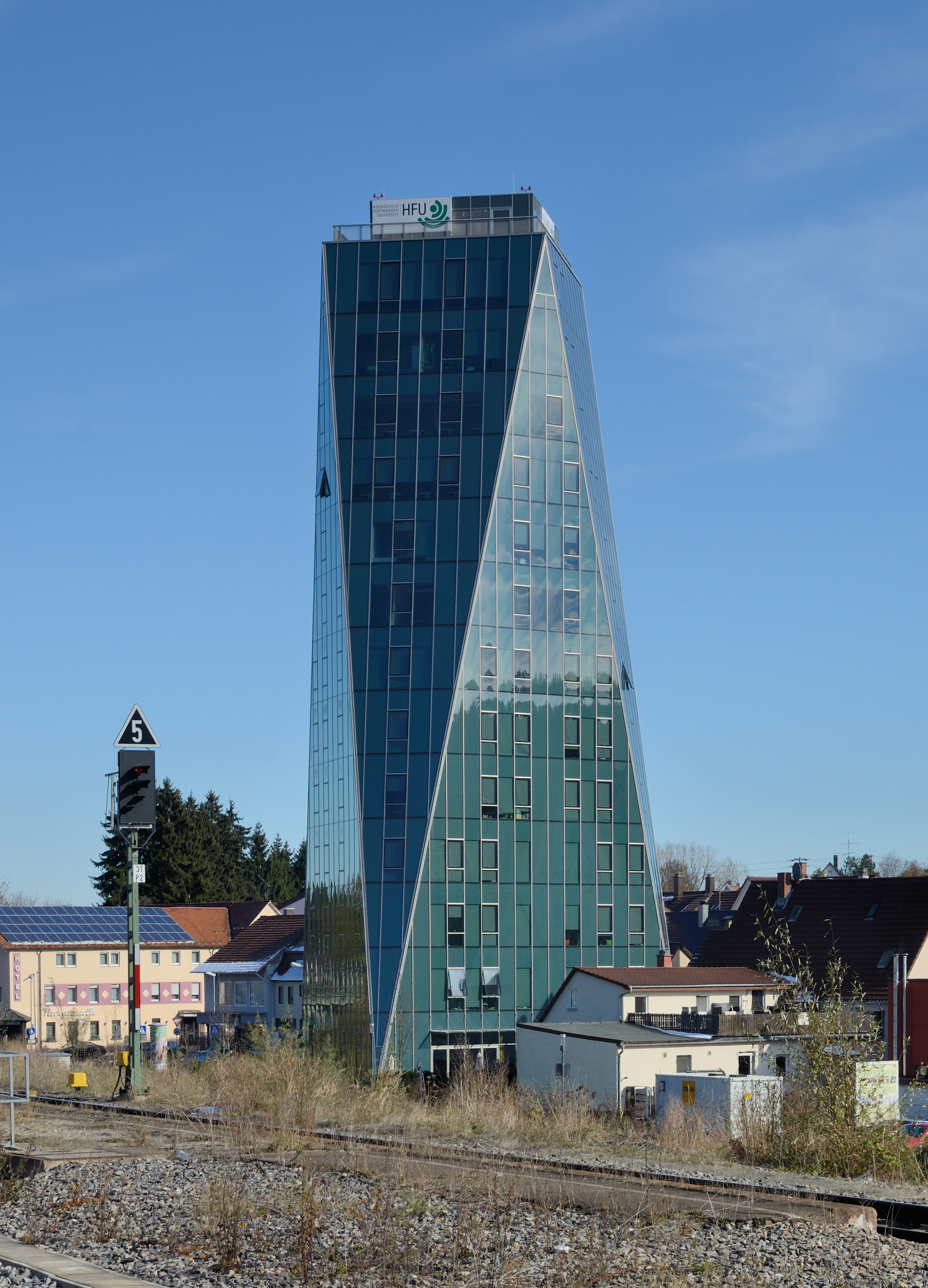 Schwenningen: Neckar Tower